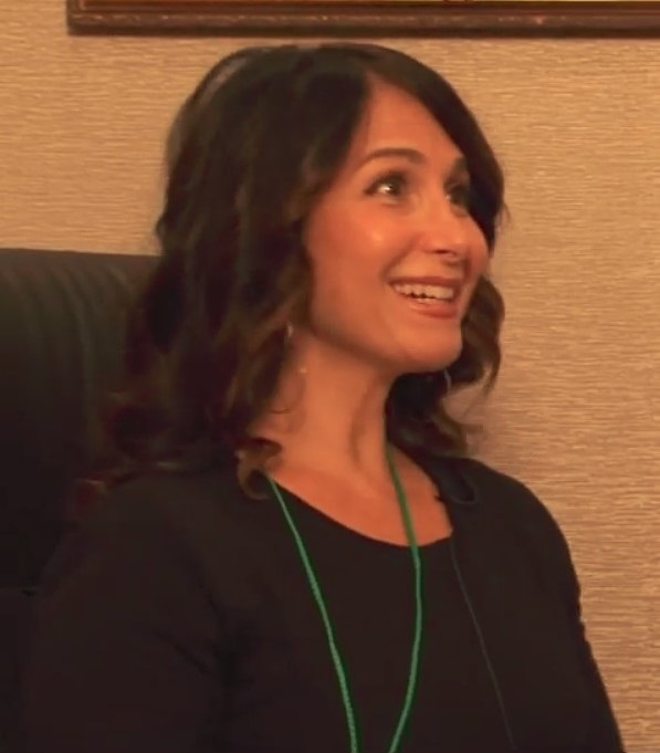 Screenshot from Otalku interview with American voice actress and singer Melissa Fahn. Melissa Fahn is perhaps best-known for playing Ed in _Cowboy Bebop_, but that's just one of her many roles: Rika in _Digimon Tamers_, Haruka in _Noein_, one of the Tachikoma in _Ghost in the Shell: Stand Alone Complex_, and Gaz in _Invader Zim_, among dozens of others. In this interview at Anime USA 2015, she talks about her perspective on voice acting.